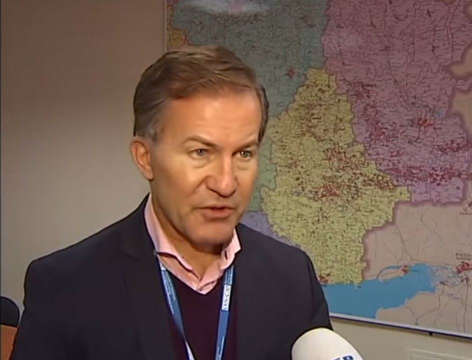 Michael Bociurkiw - canadian journalist of ukrainian descent